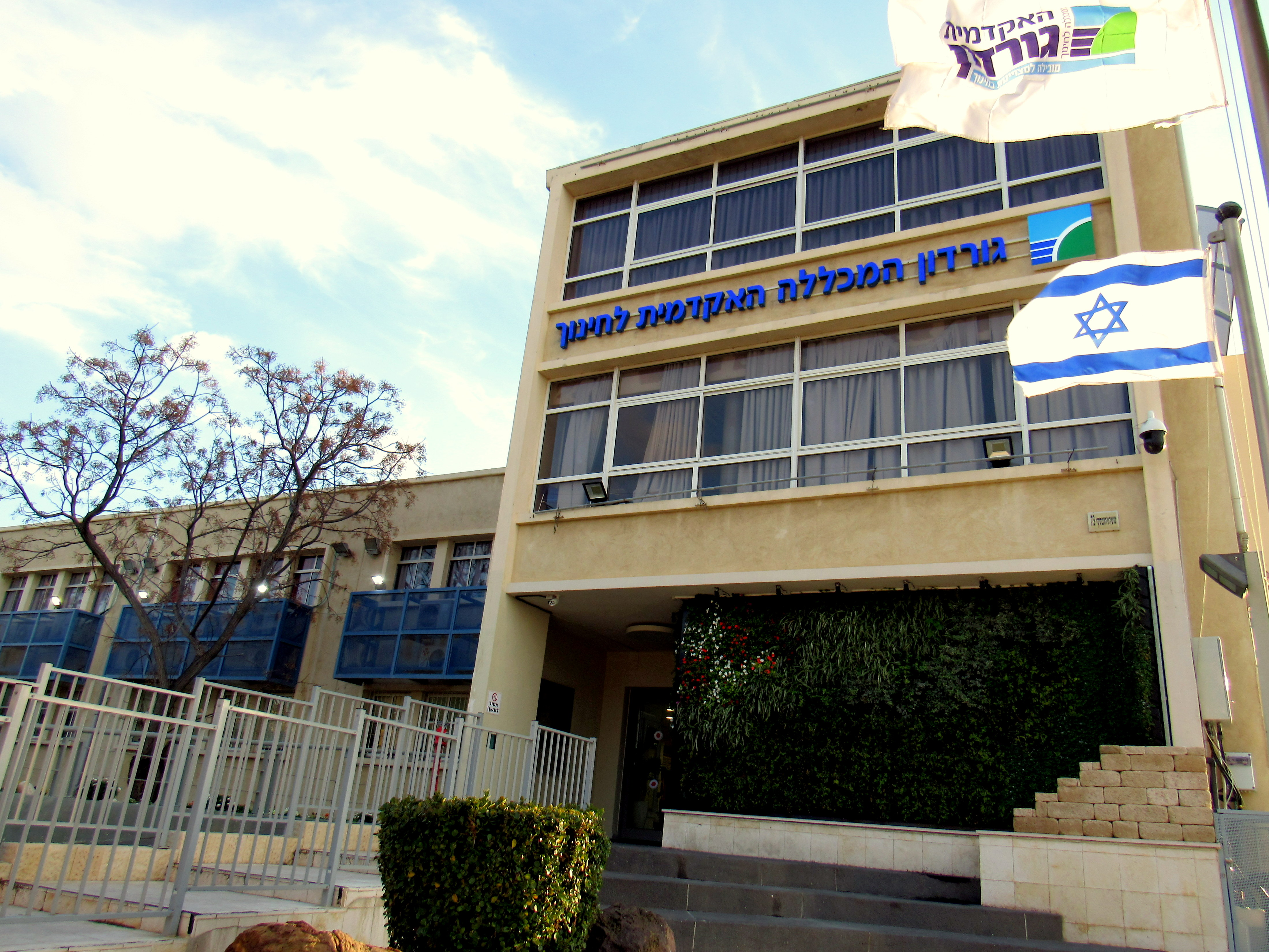 Founded in 1953, Gordon College of Education is a multicultural educational resource center, located in Haifa, Israel, training teachers from different ethnic and religious groups.